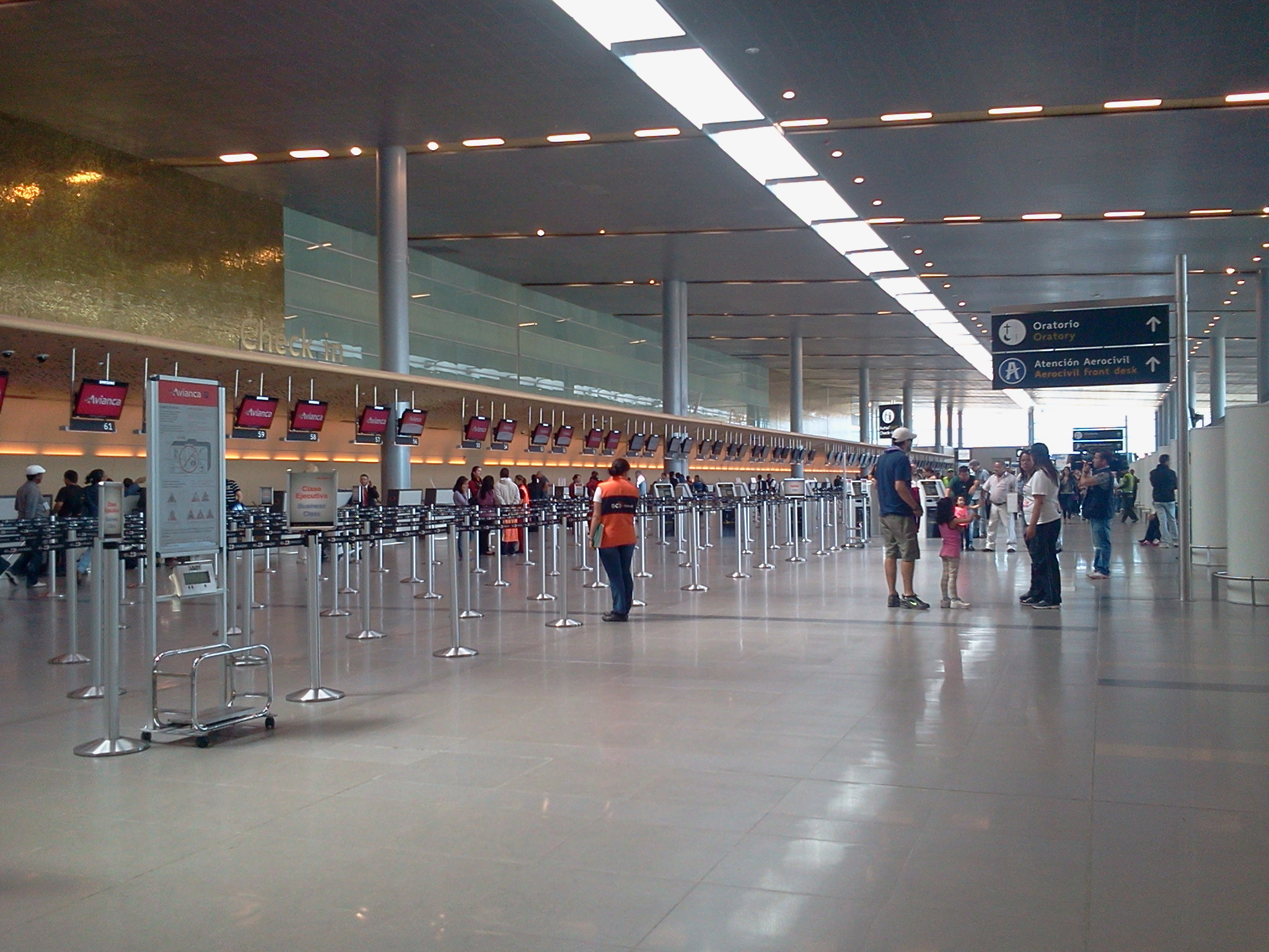 el dorado intertational airport